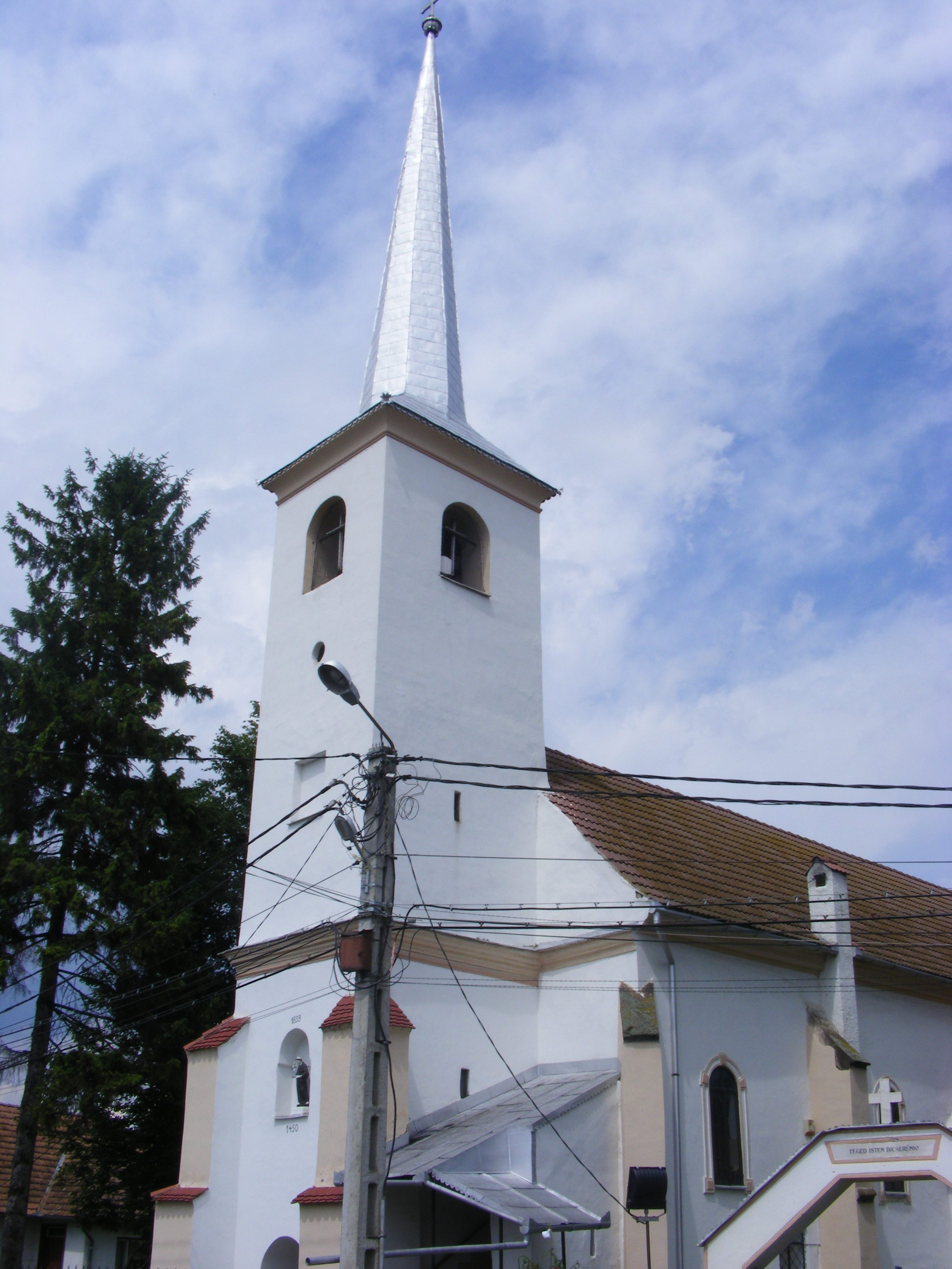 Church in Csíkcsicsó, Transsilvany